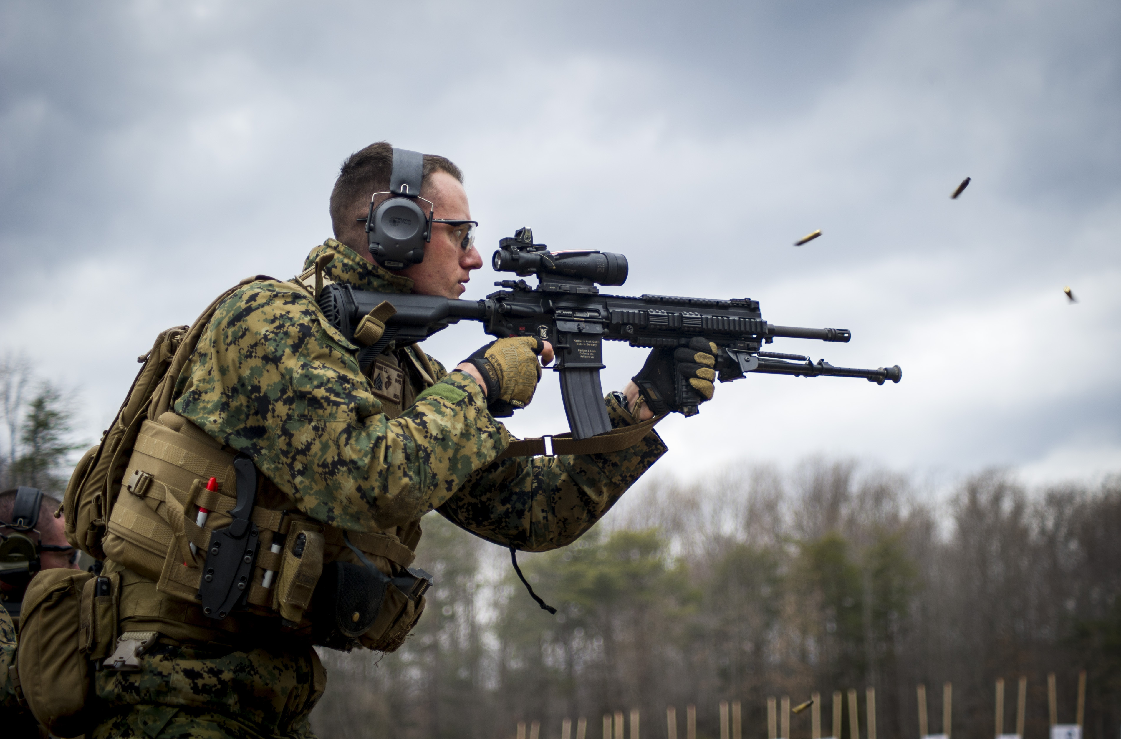 U.S. Marine Sgt. Travis Riggs, with the Marine Security Augmentation Unit (MSAU), engages his target during a weapons field test of the M27 Infantry Automatic Rifle at Marine Corps Base Quantico, Va., Feb. 21, 2014. The MSAU Marines conducted the live-fire range in order to familiarize themselves with the new weapons system.